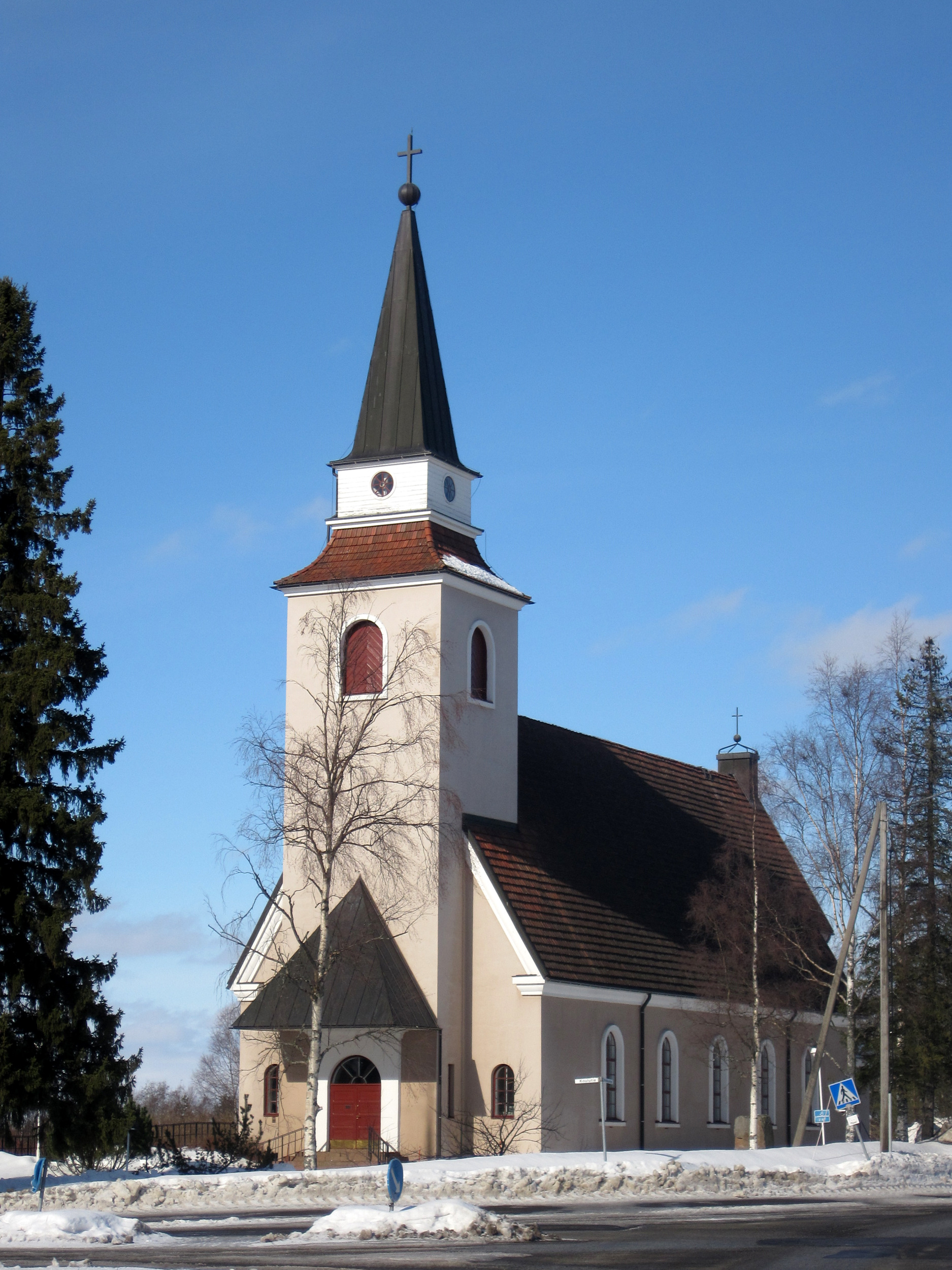 Alavieska church. It was built in 1948.